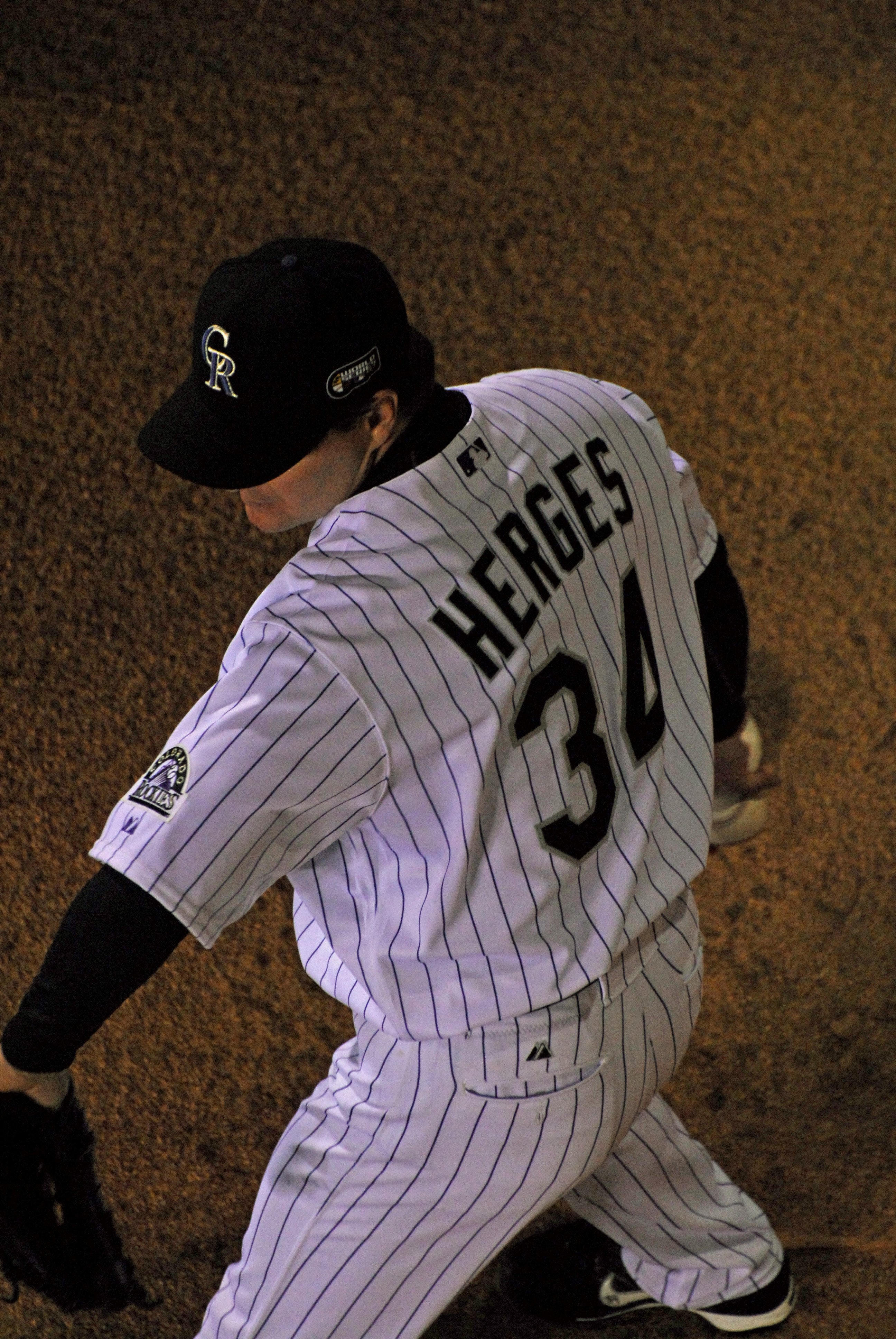 never made it in, warmed again in the bottom of the 9th